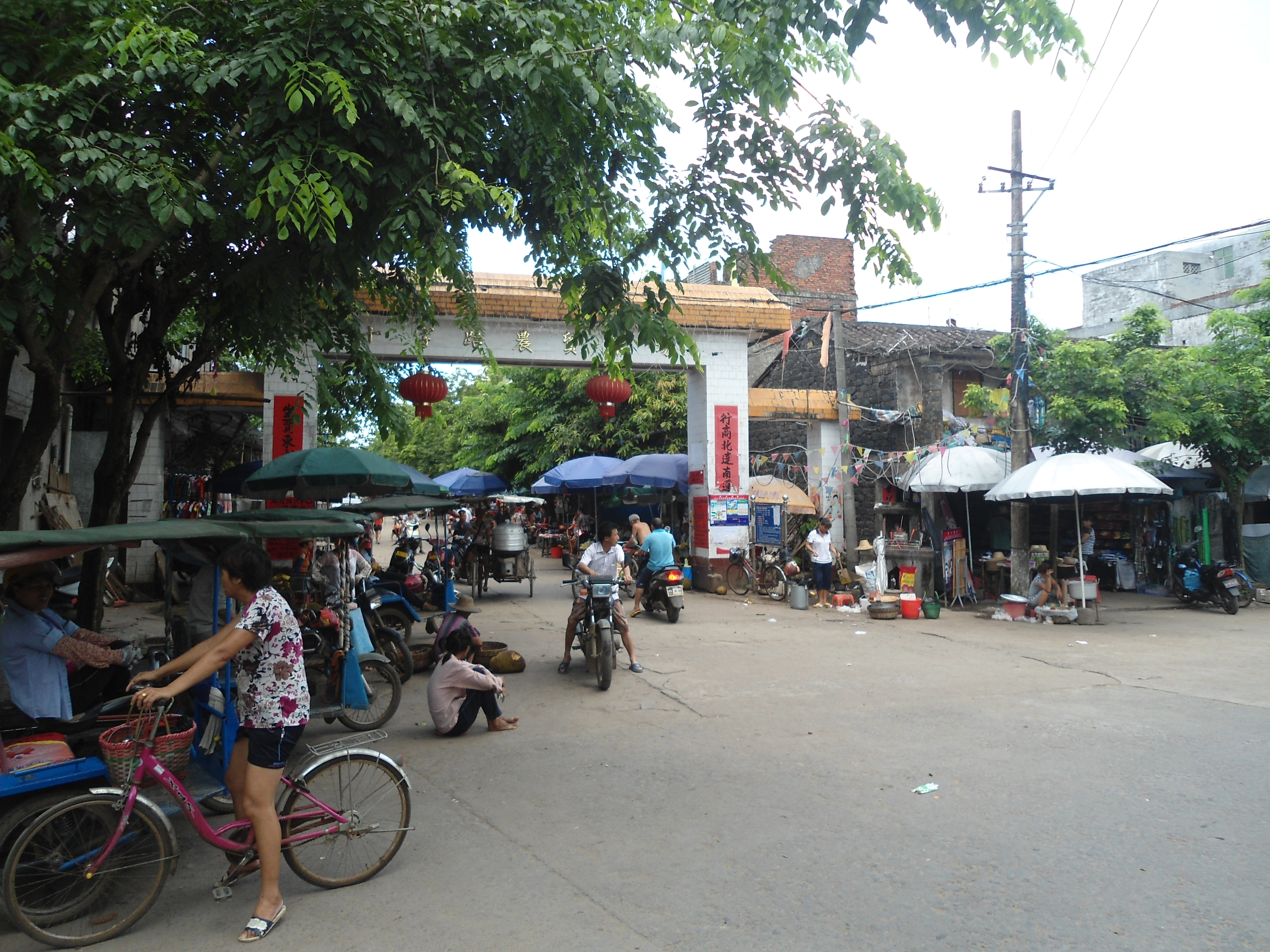 Longquan (formerly Shiziluzhen), Hainan, China.